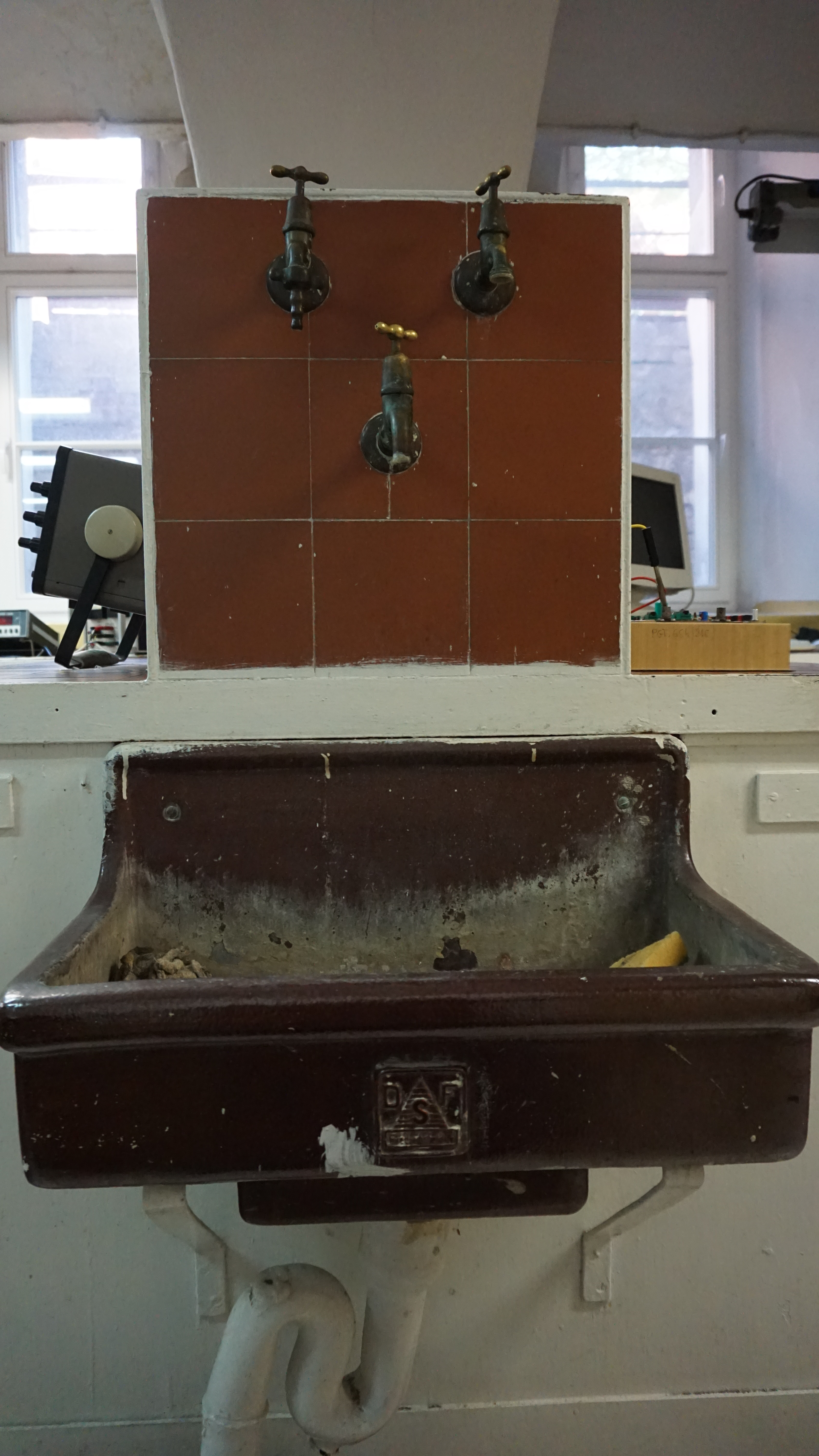 Laboratory sink from the beginning of the 20th century, located at the Chemical Faculty, on the historic campus of the Gdańsk University of Technology